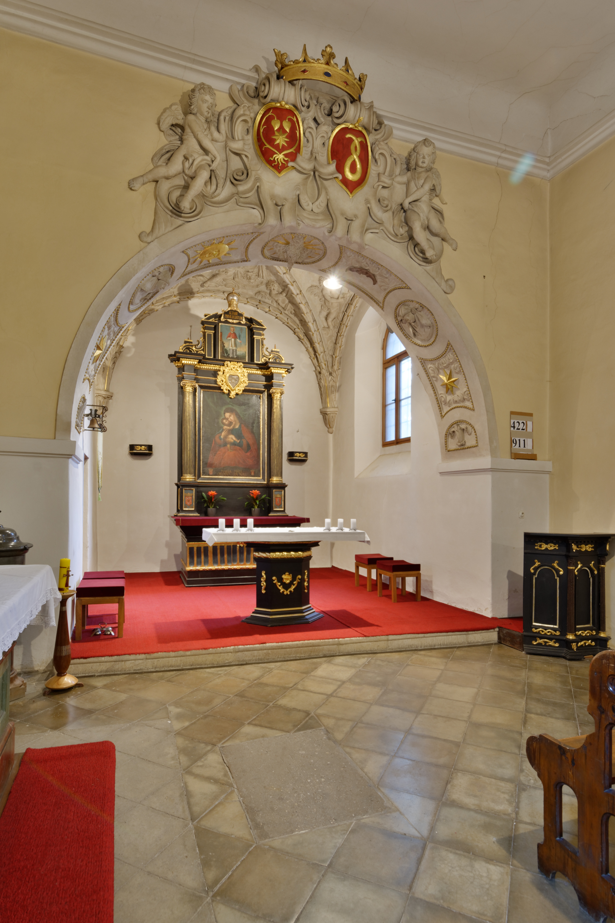 Church of Saint Clemens in Holešovice, Prague.